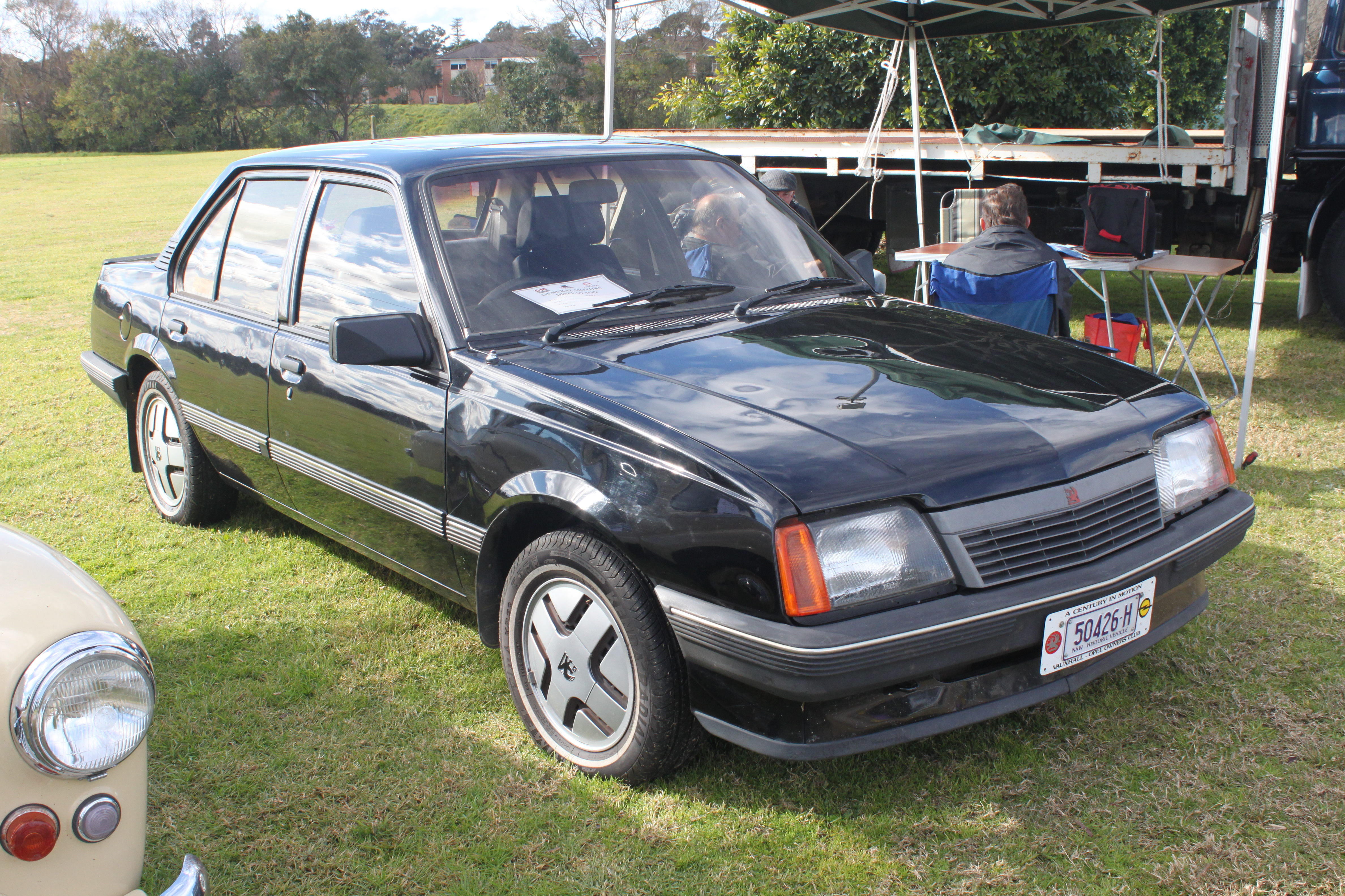 GM Display Day, Penrith Panthers, NSW July 2015